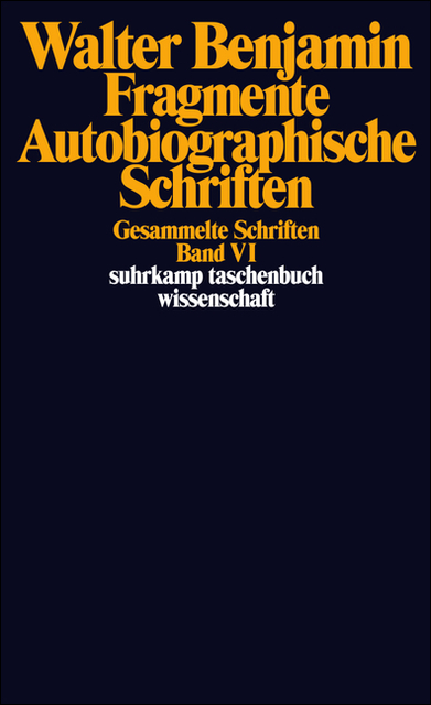 Cover "Walter Benjamin. Gesammelte Schriften - Band VI: Fragmente vermischten Inhalts. Autobiographische Schriften" (1985)